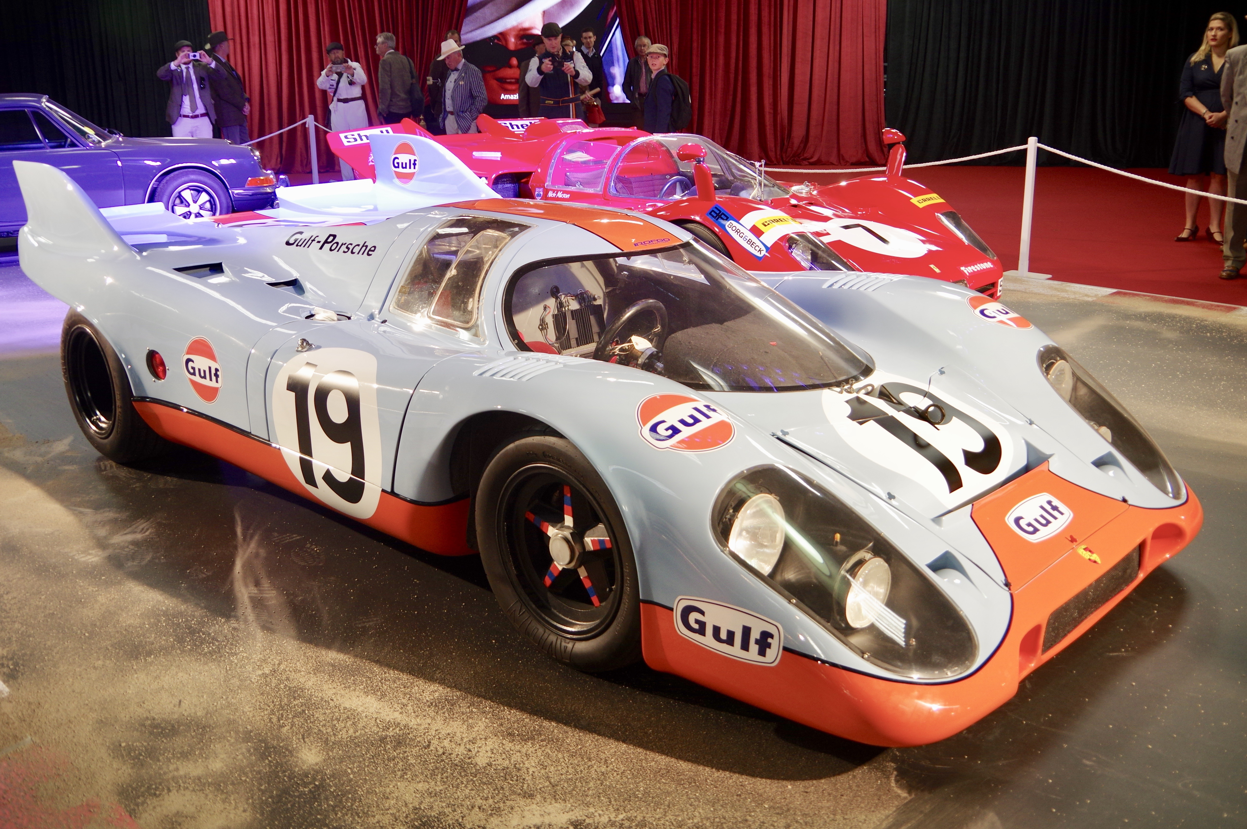 This car featured in Steve McQueen's film "Le Mans" Goodwood Revival 2018